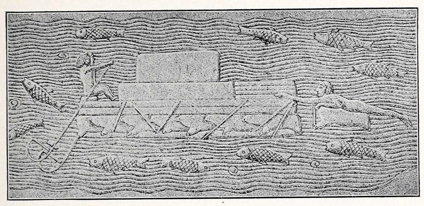 Caption: Inflated raft, from a relief at Ninevah. After Layard.